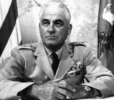 General Nathan F. Twining during his tenure as Chairman of The Joint Chiefs of Staff.